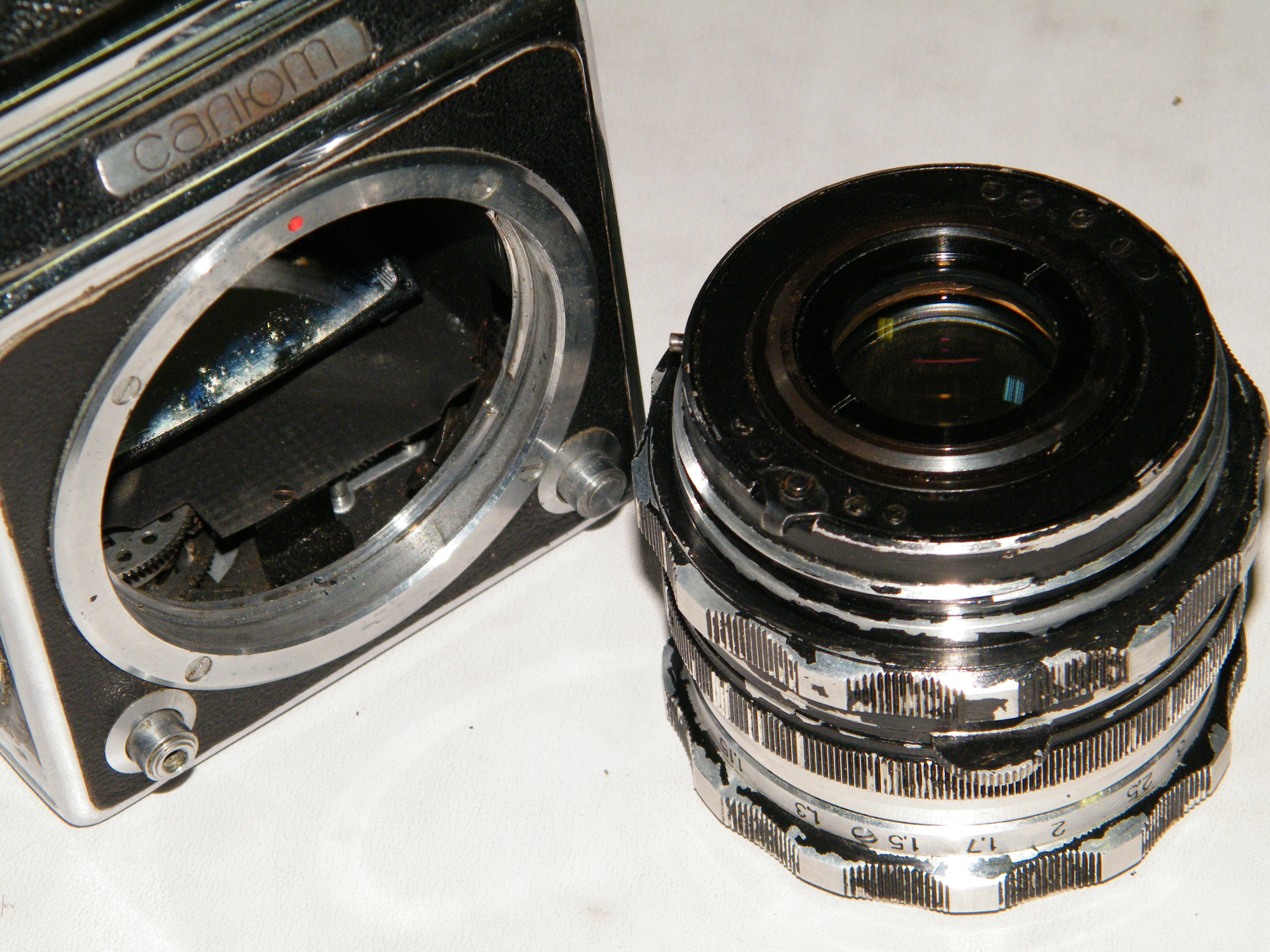 Salyut camera from Evgeniy Okolov collection